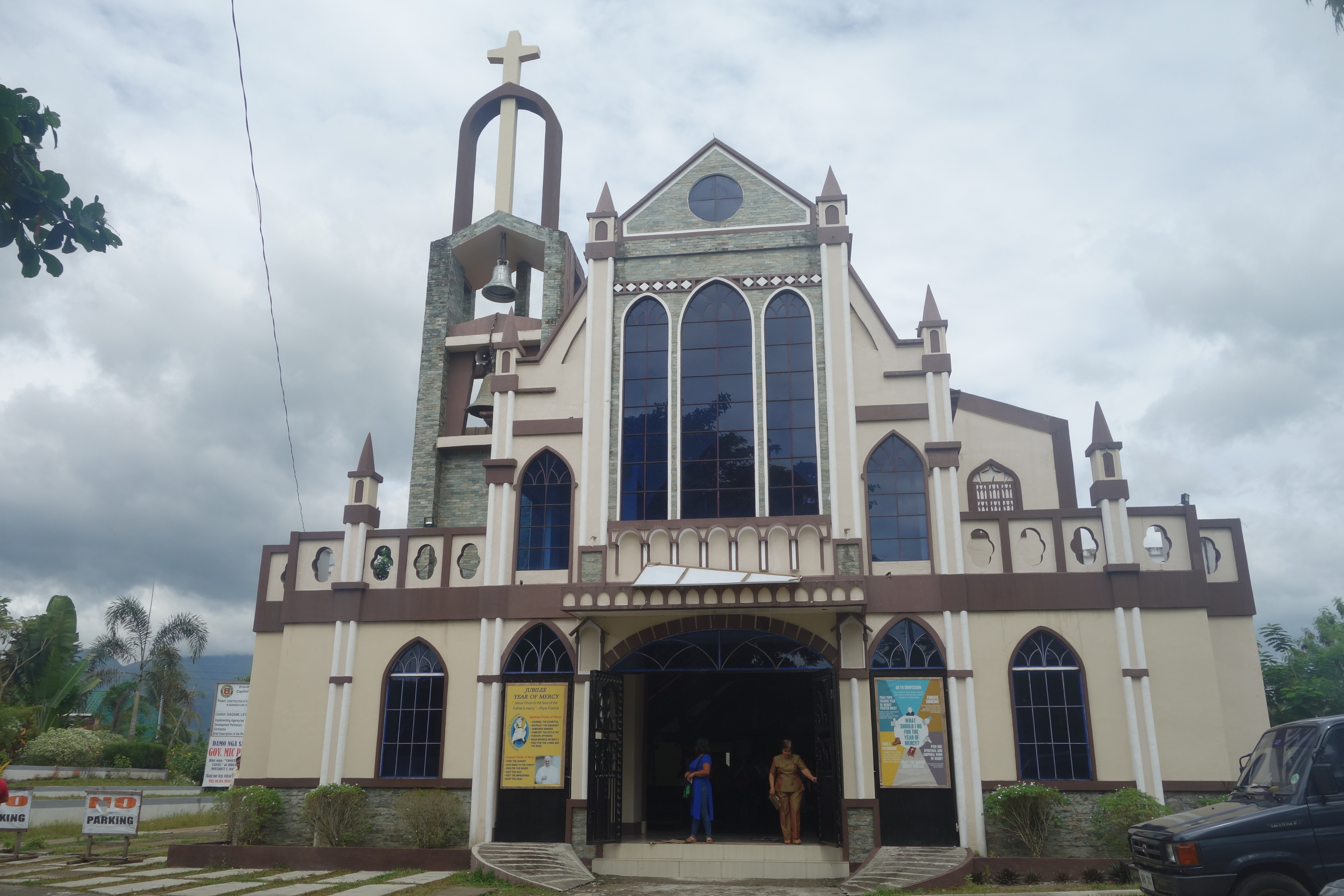 Facade of St. Joseph Parish Church in Dagami, PH